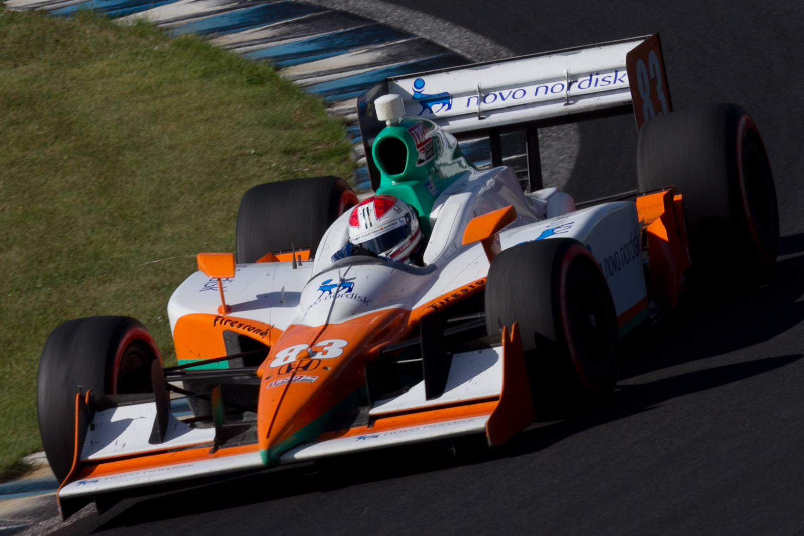 IndyCar Series 2011 Rd.15 Indy Japan 300: Charlie Kimball (Chip Ganassi)